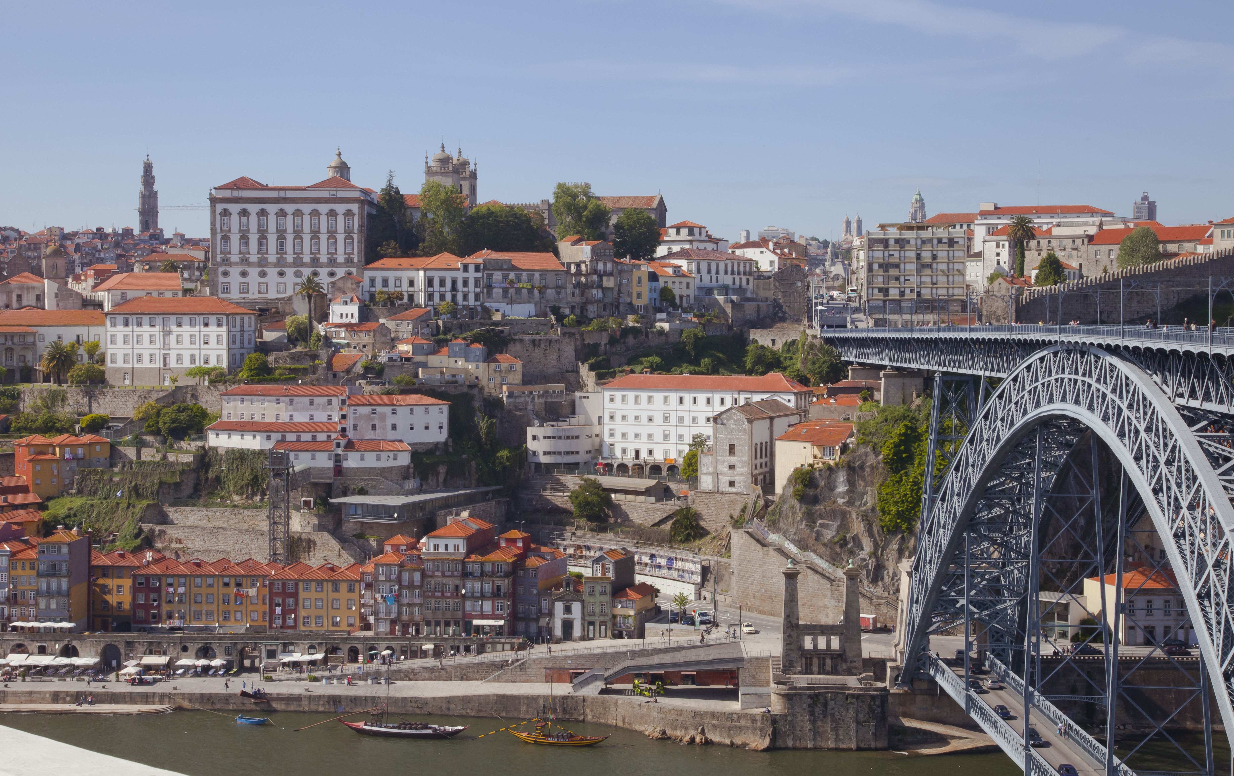 Cais da Ribeira, Porto, Portugal